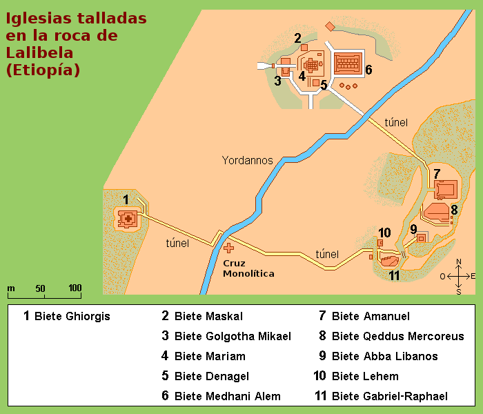 Map (rough) of Lalibela, Etiopia, in Spanish, adapted from version in English